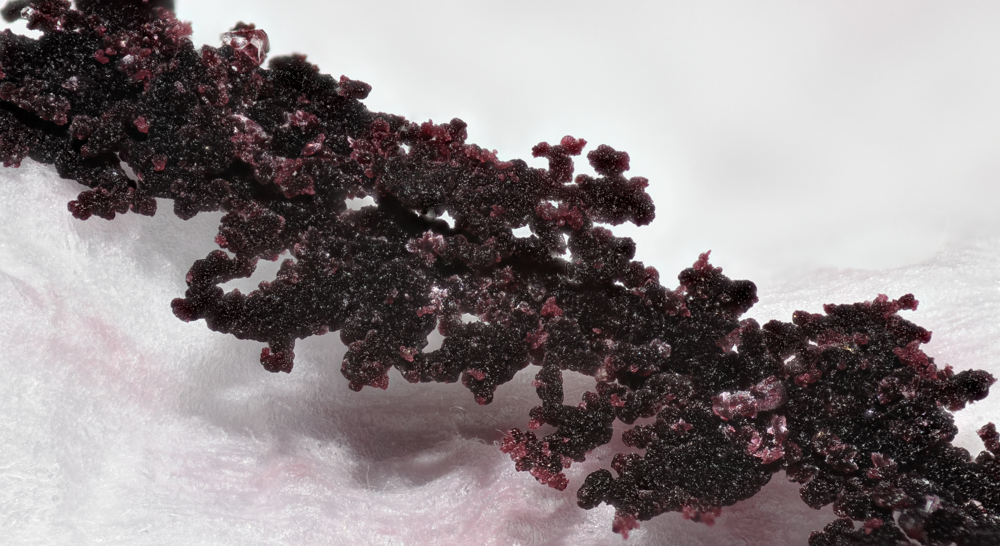 This photograph was taken with a Nikon D300 Focus stacking of 70 pictures (using Zerene Stacker).Dépôt présent dans une bouteille de vin (focus stacking). Image composée de 70 photos prises avec la bonnette Raynox DCR-250 et assemblées avec Zerene Stacker.